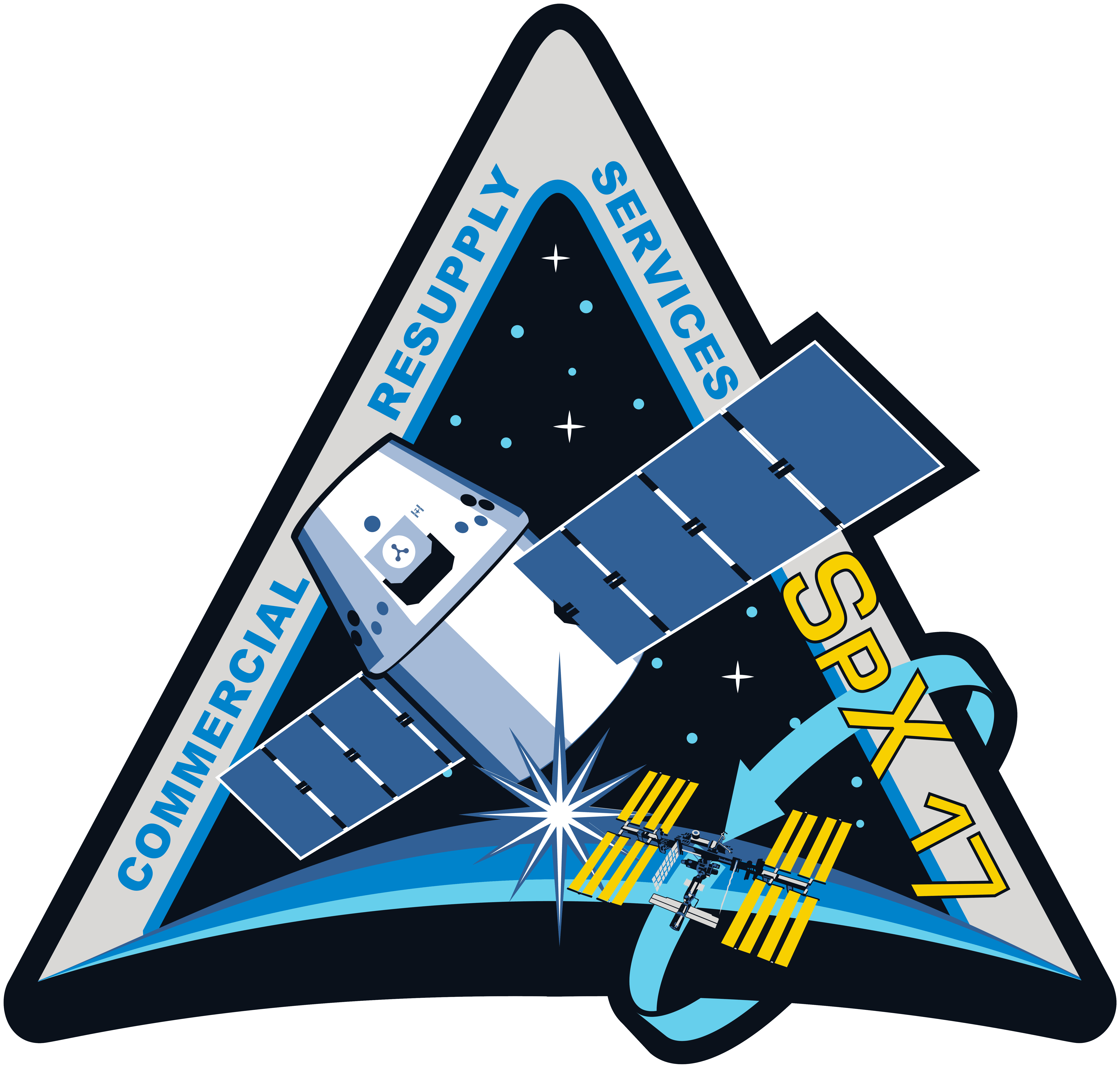 NASA's insignia for SpaceX's 17th Commercial Resupply Services flight to the International Space Station.